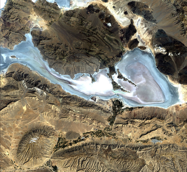 Lakes Bakhtegan and Tashk in the Fars Province in southern Iran are featured in this image acquired by ALOS – Japan's four-tonne Earth observation satellite. 23 February 2010